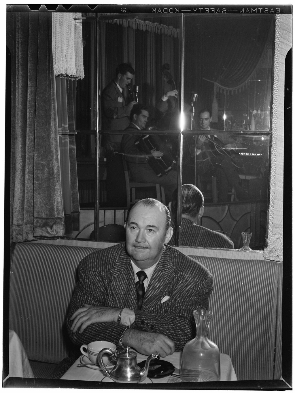 Gottlieb, William P., 1917-, photographer. [Portrait of Paul Whiteman, Joe Mooney, Andy Fitzgerald, Gaeton (Gate) Frega, and Jack Hotop, Eddie Condon's, New York, N.Y., ca. June 1947] 1 negative : b&w ; 3 1/4 x 4 1/4 in. Notes: Gottlieb Collection Assignment No. 425 Reference print available in Music Division, Library of Congress. Purchase William P. Gottlieb Forms part of: William P. Gottlieb Collection (Library of Congress). Subjects: Whiteman, Paul, 1890-1967 Mooney, Joe, 1911-1975 Fitzgerald, Andy Frega, Gaeton (Gate) Hotop, Jack Joe Mooney Quartet Jazz musicians--1940-1950. Conductors (Music)--1940-1950. Eddie Condon's Format: Portrait photographs--1940-1950. Group portraits--1940-1950. Film negatives--1940-1950. Rights Info: Mr. Gottlieb has dedicated these works to the public domain, but rights of privacy and publicity may apply. Repository: (negative) Library of Congress, Prints & Photographs Division, Washington D.C. 20540 USA, (reference print) Library of Congress, Music Division, Washington D.C. 20540 USA, Part Of: William P. Gottlieb Collection (DLC) 99-401005 General information about the Gottlieb Collection is available at Persistent URL: Call Number: LC-GLB13- 0913 This work is from the William P. Gottlieb collection at the Library of Congress. Rights and restrictions.In accordance with the wishes of William Gottlieb, the photographs in this collection entered into the public domain on February 16, 2010.